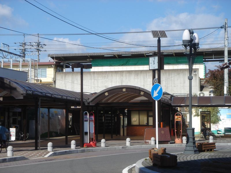 Hozumi Station on the Tōkaidō Main Line, in the city of Mizuho, Gifu Prefecture, Japan